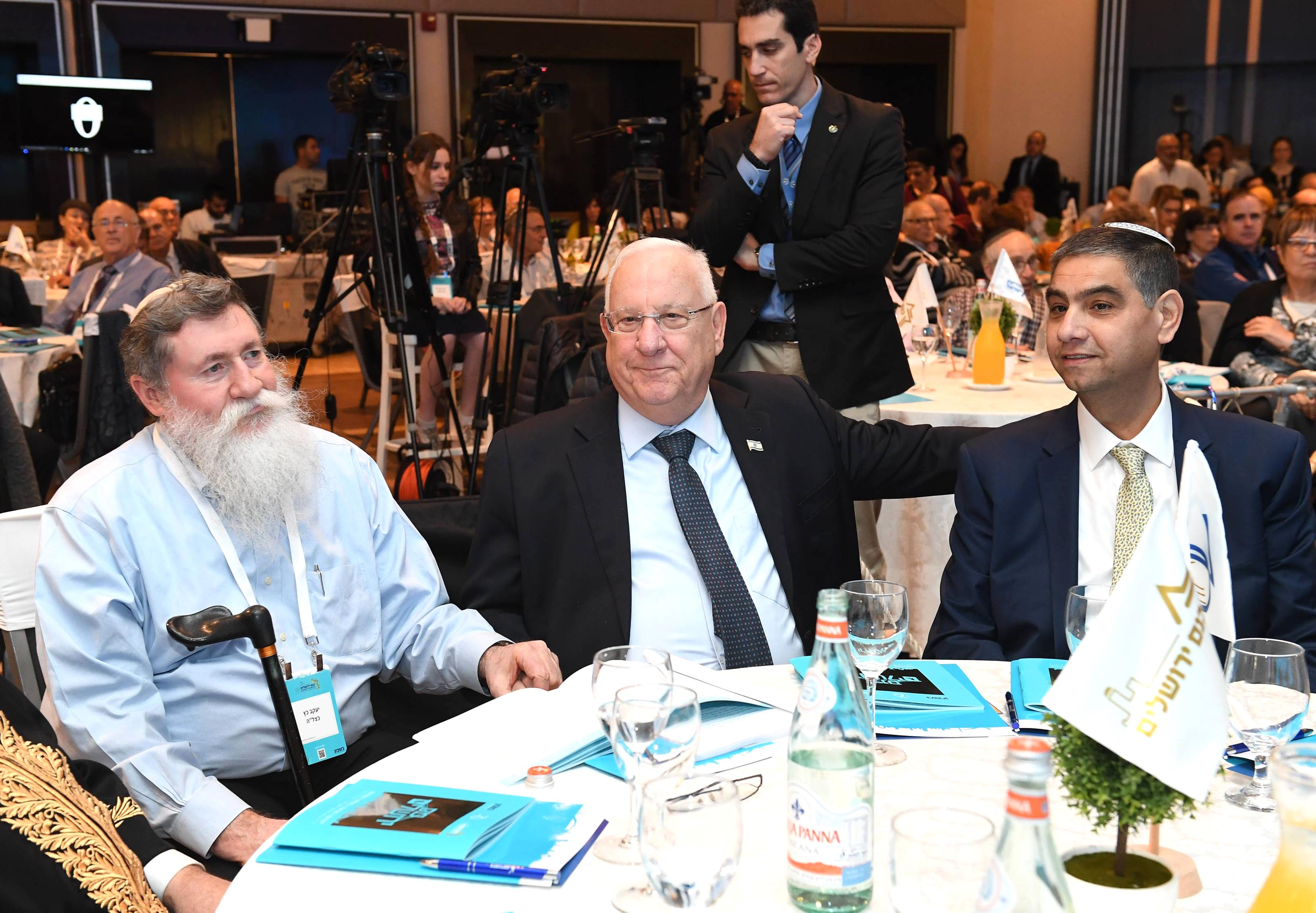 President of Israel, Reuven Rivlin, opens the 15th Jerusalem Conference of the "B'Sheva" group. Monday, February 12, 2018. Photo Credit: Mark Neyman / GPO.